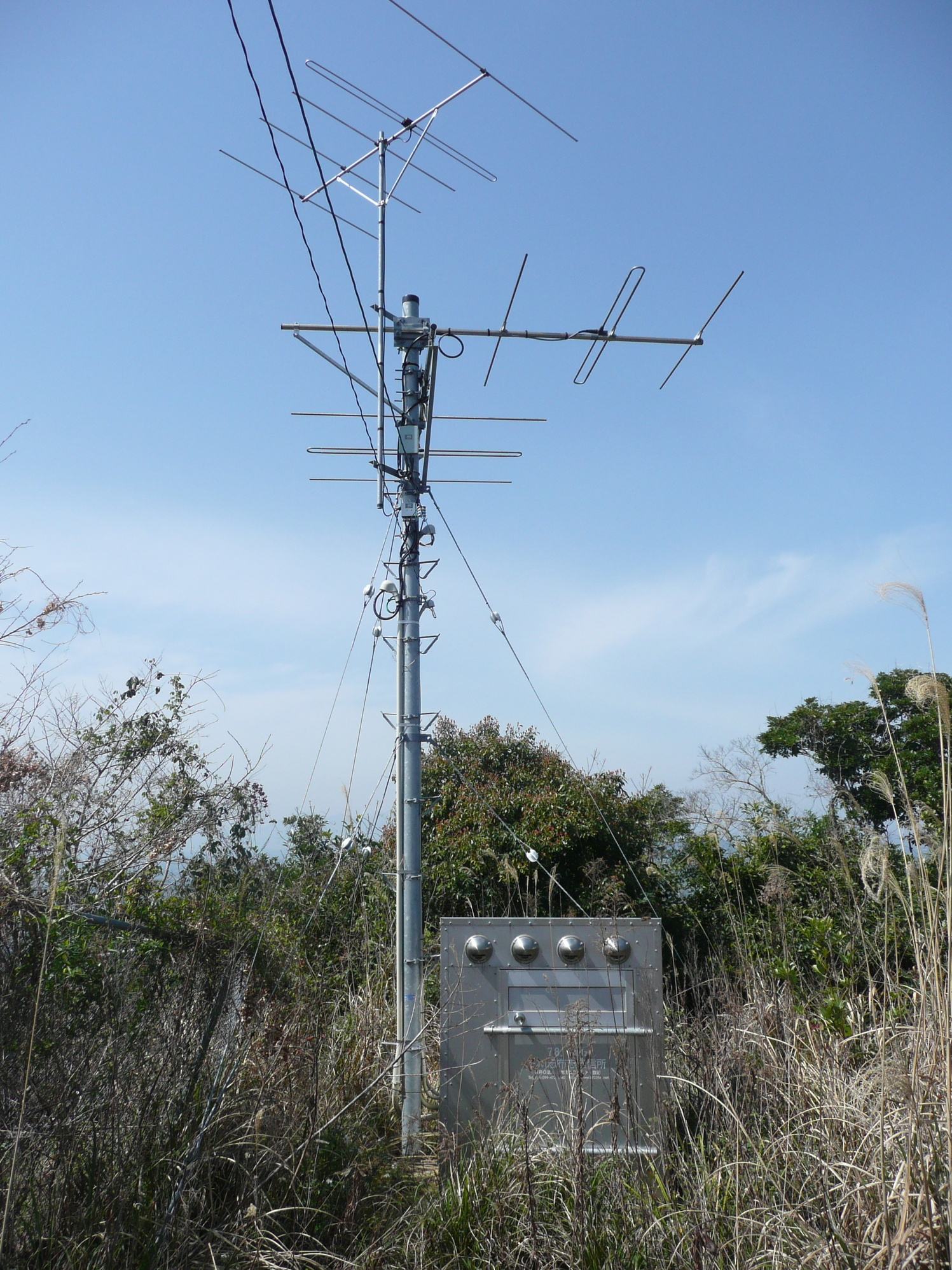 FM Shibushi Transmitting Station (JOZZ0BA-FM,78.1MHz,20W - Shibushi City, Kagoshima, Japan)